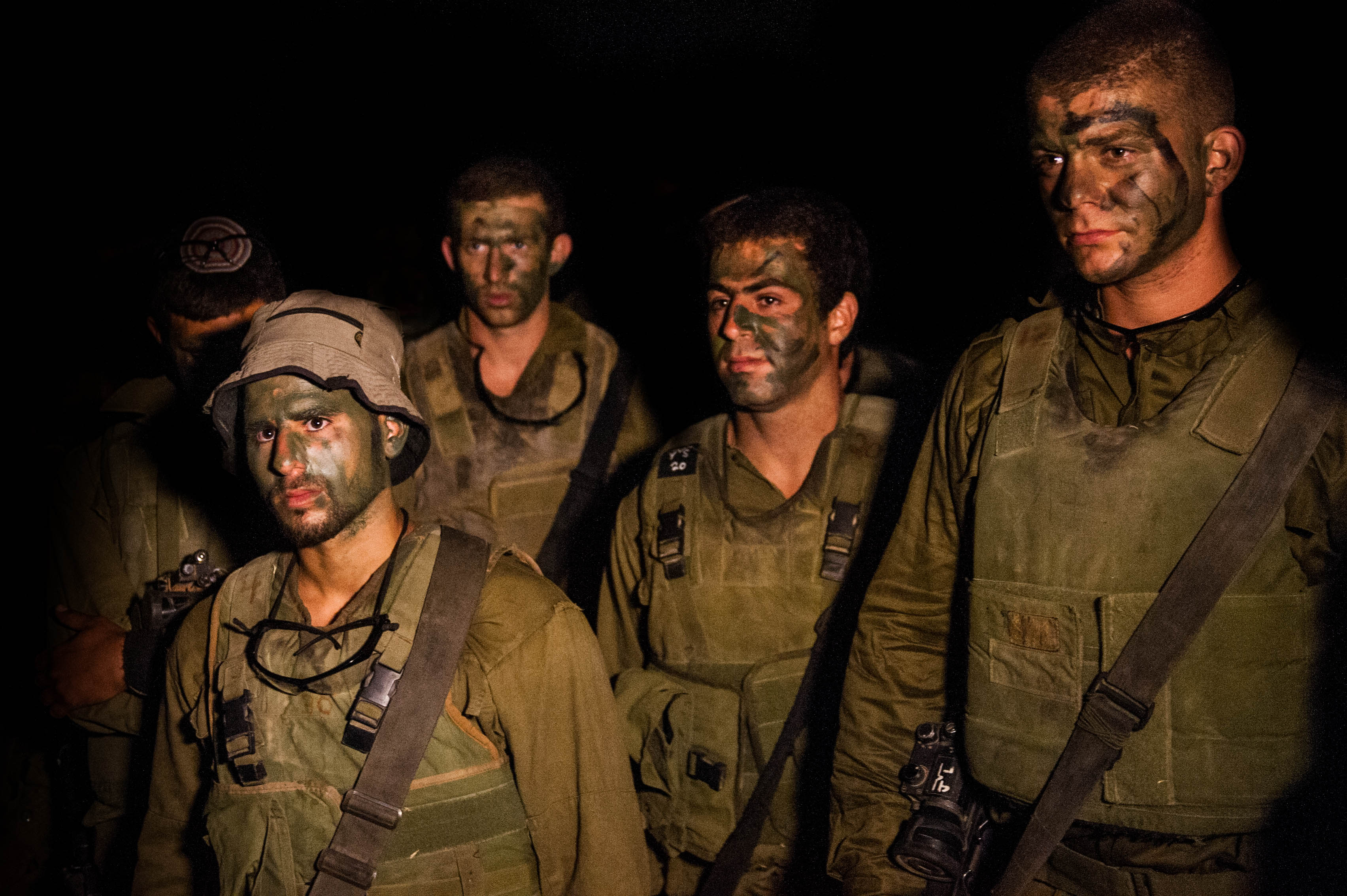 In order to defend the citizens of Israel and stop relentless Gazan rocket attacks at Israeli civilians, a second phase of Operation Protective Edge begins. IDF soldiers prepare to enter Gaza on the ground. For more updates: The Israel Defense Forces Facebook The Israel Defense Forces blog Follow us on Twitter